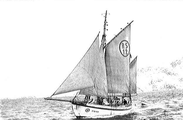 Norwegian rescue boat RS 12 Svolvær in Lofoten